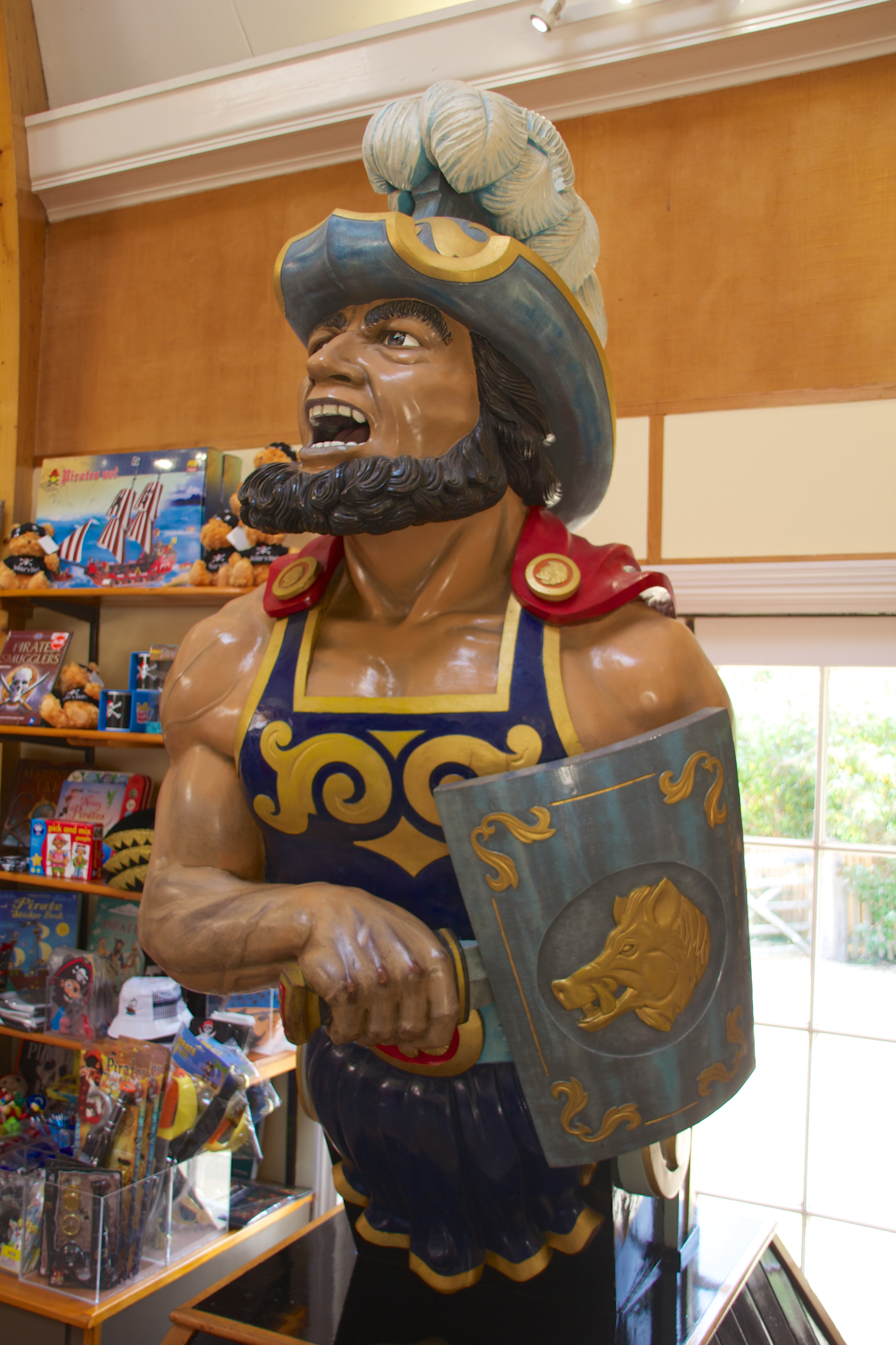 Figurehead H.M.S. Gladiator. 44 guns. Launched at Buckler's Hard 1782. Buckler's Hard Maritime Museum, Beaulieu, Hampshire, United Kingdom.